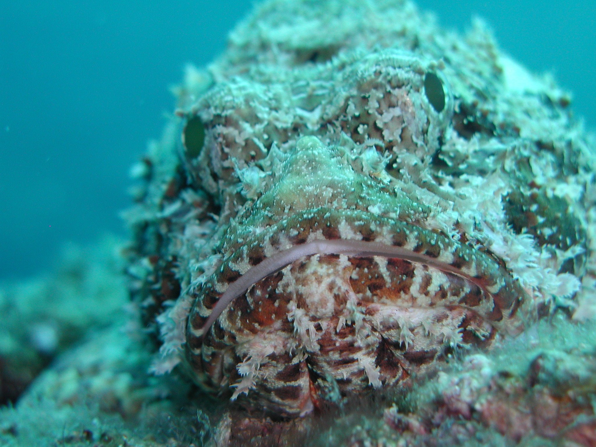 A scorpion fish of unknown species. Identification is appreciated. Taken in Baja California Peninsula.Scorpion fish